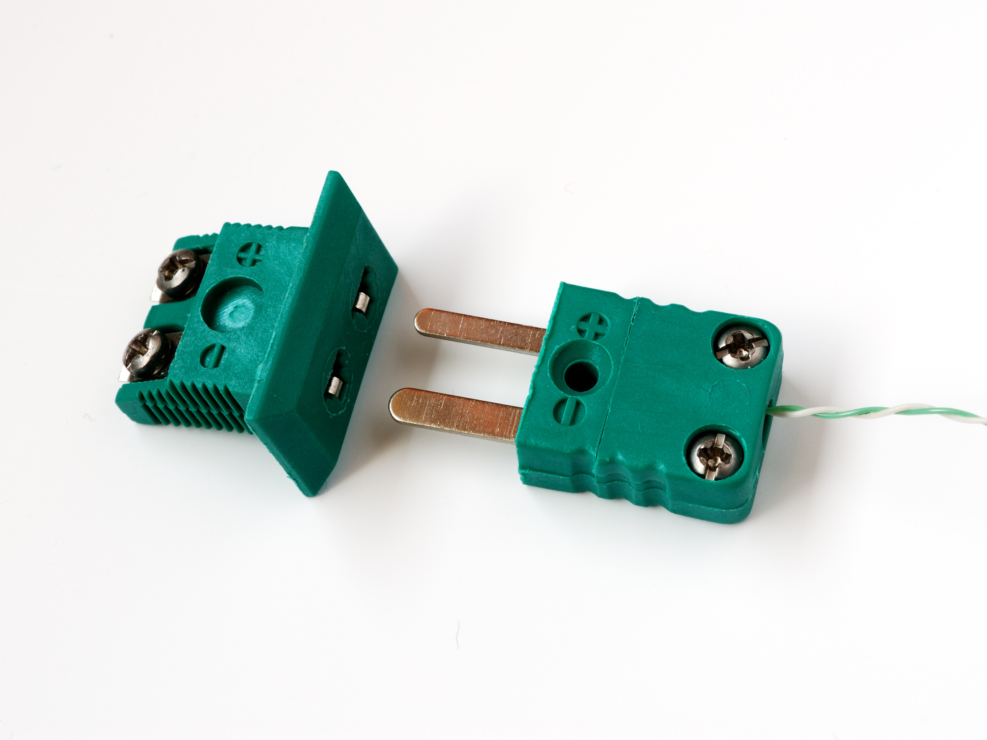 Connector and socket for a type K (NiCr-Ni) Thermocouple. IEC color code: connector color green. Connector overall dimensions: 31 mm x 16 mm x 8 mm.